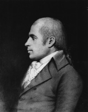 PAINE, Elijah, (1757 - 1842) Senate Years of Service: 1795-1801 Party: Federalist